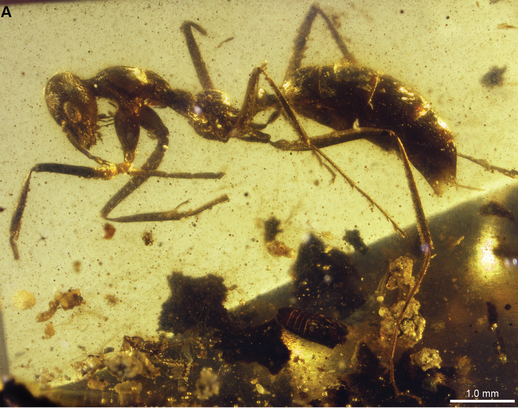 Figure 2. Gerontoformica gracilis (Sphecomyrmodes gracilis) holotype JZC Bu324A photomicrographs. A. Lateral view of whole specimen.